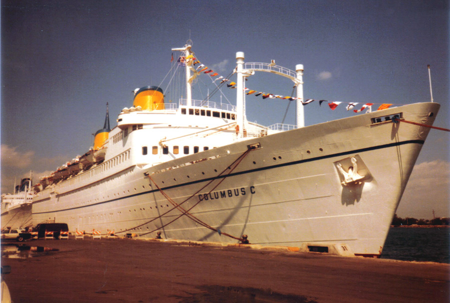 The cruise ship Columbus C moored in Miami's harbor on February 26, 1984.